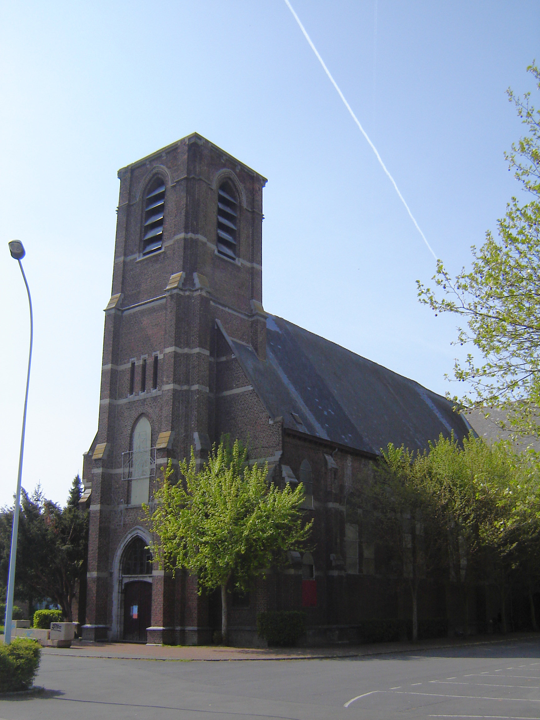 Eglise Notre-Dame du Bon Conseil, in the Beaulieu quarter in Wattrelos. Wattrelos, Nord, Nord-Pas-de-Calais, France